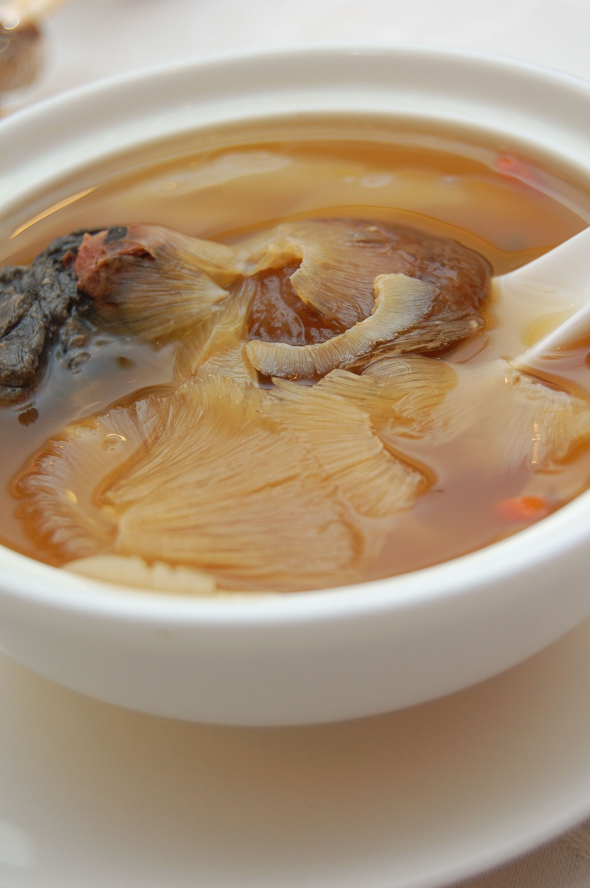 Chinese cuisine-Shark fin soup-01.jpg